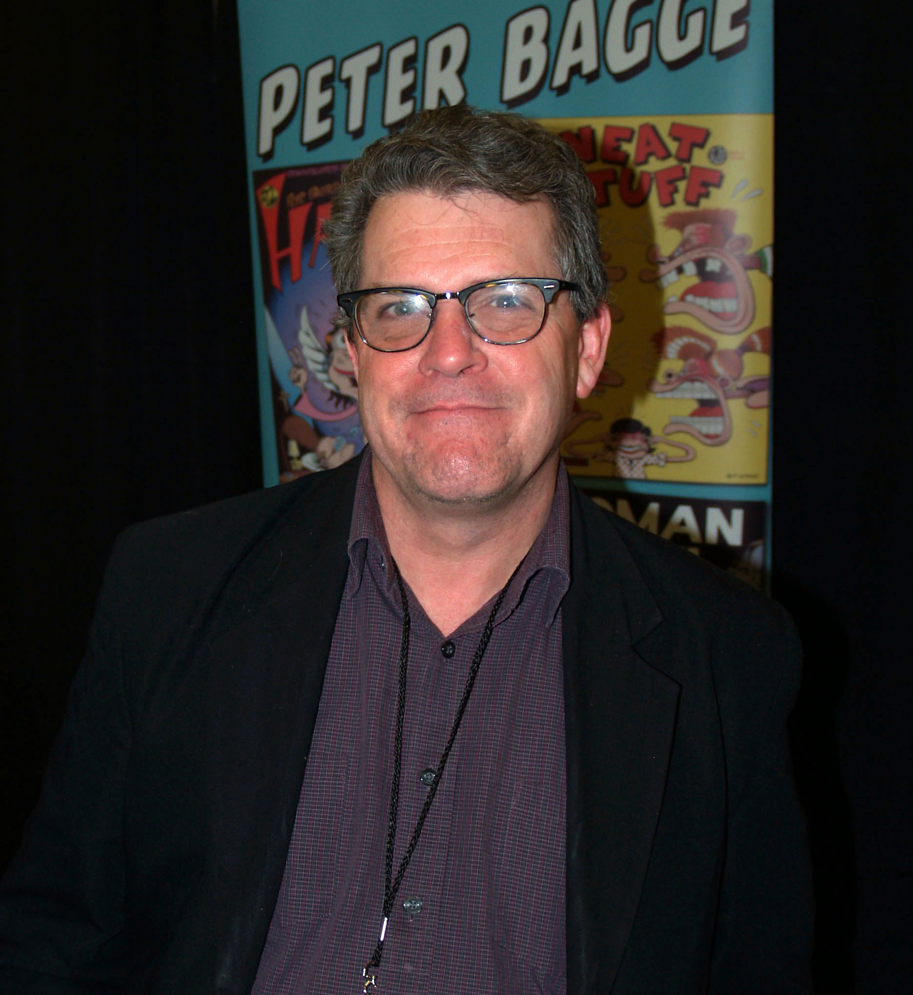 Comics creator Peter Bagge at the Meadowlands Exposition Center in Secaucus, New Jersey on April 16, 2016, Day 1 of the 2016 East Coast Comicon. This photo was created by Luigi Novi. It is not in the public domain, and use of this file outside of the licensing terms is a copyright violation.